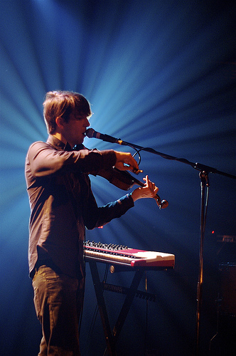 Owen Pallett performing in the Botanique (Brussels). Bigger version on Flickr